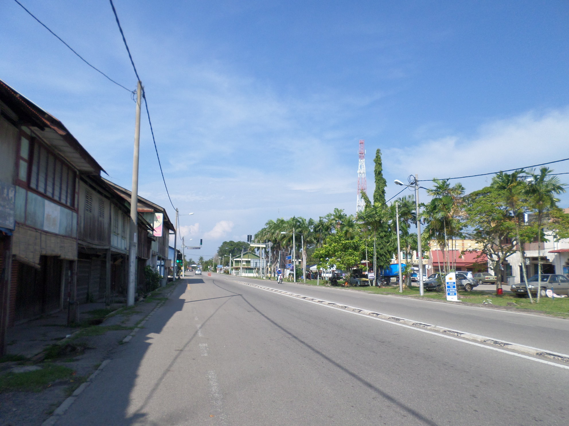 Sungai Rambai, Jasin, Malacca, MalaysiaBahasa Melayu: Sungai Rambai, Jasin, Melaka, Malaysia